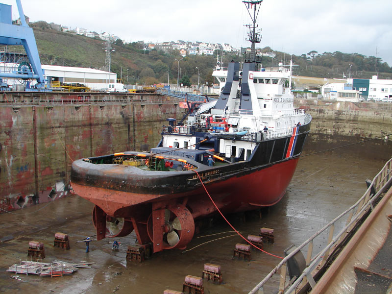 The tugboat Abeille Languedoc in dry dock in Brest.